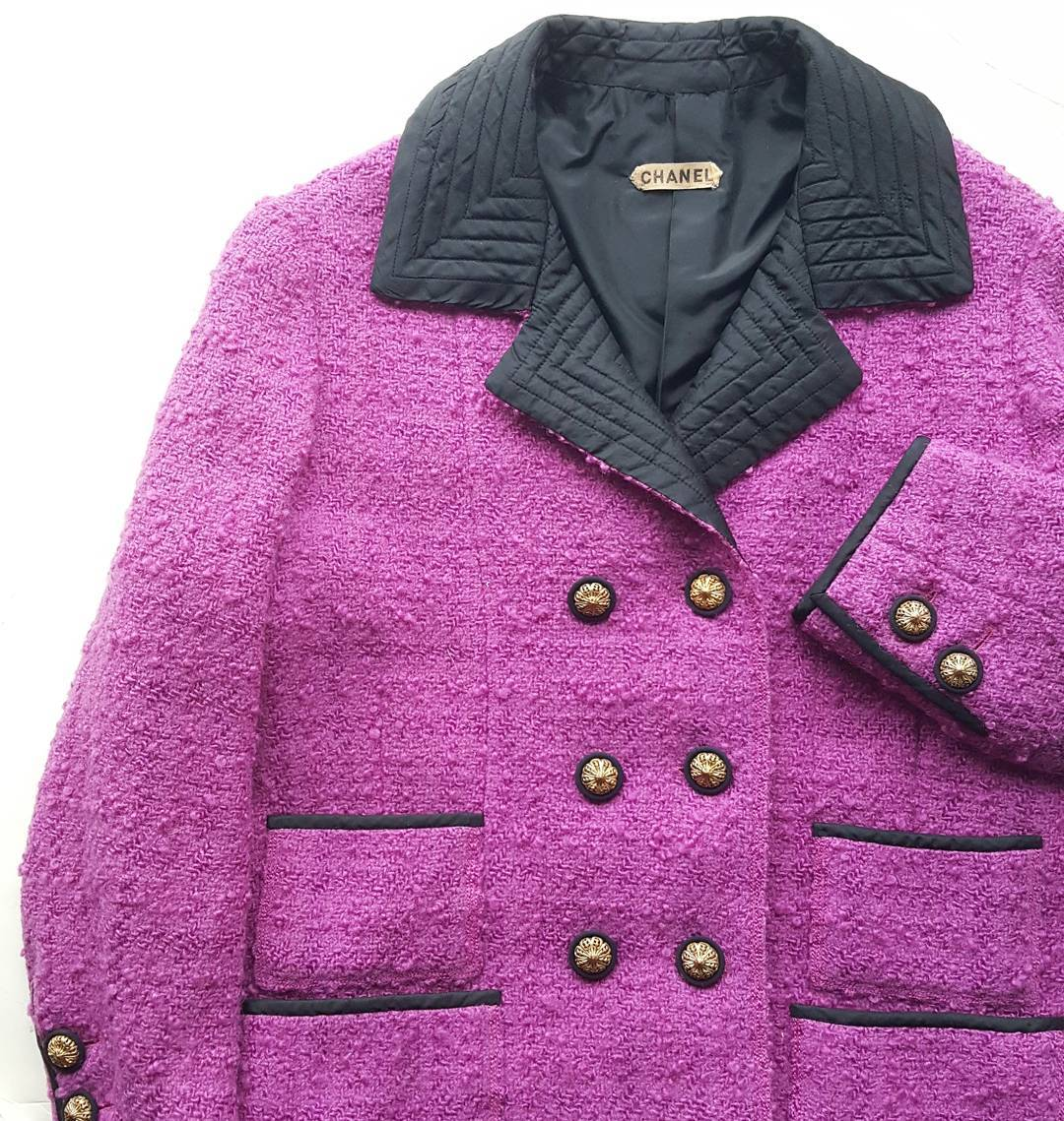 Chanel Haute Couture jacket, F/W 1961. Jacqueline Kennedy's pink Chanel suit was a line-to-line copy made by Chez Ninon in New York based on the original design. This is an original haute couture jacket made by Coco Chanel in Paris. Adnan Ege Kutay Collection.